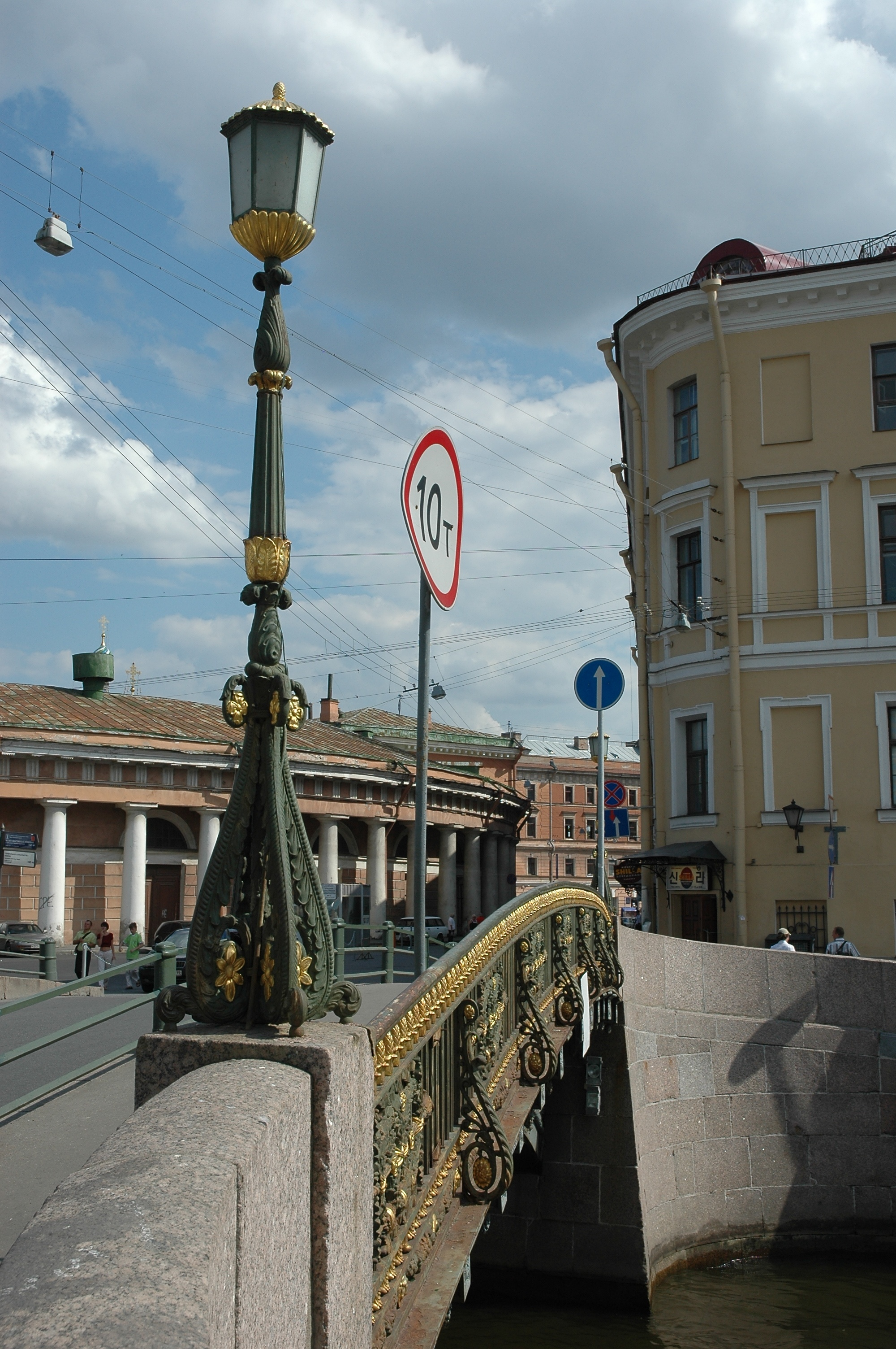 Bolshoi Koniushennyi bridge across Moika river, St Petersburg (lantern)